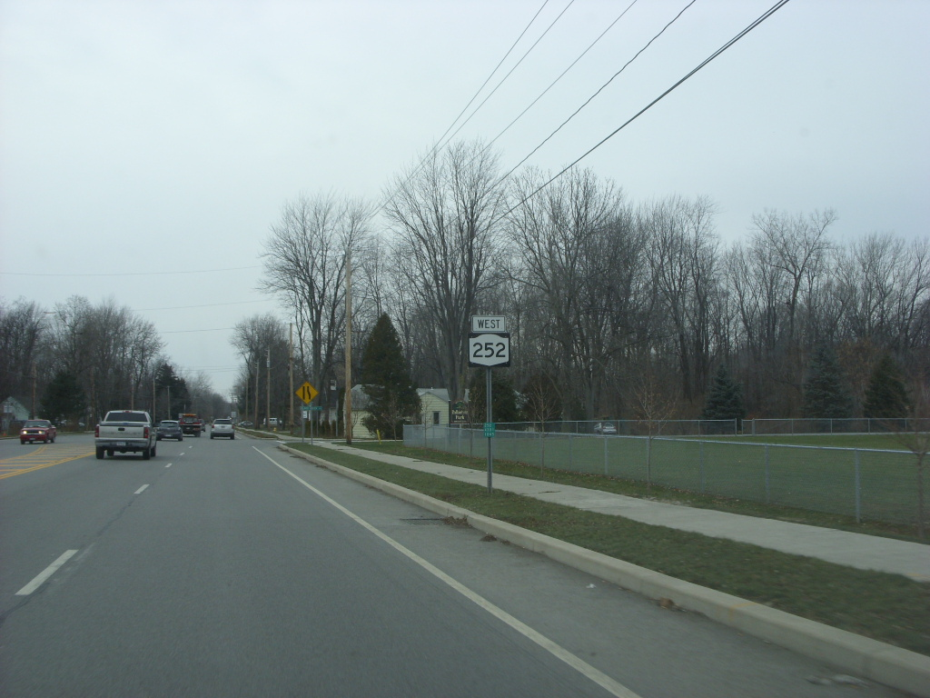 Westbound on New York State Route 252 in Chili. Ownership and maintenance of this section of NY 252 was transferred from Monroe County to the state of New York in 2007, meaning the reference marker below the shield is fairly new.